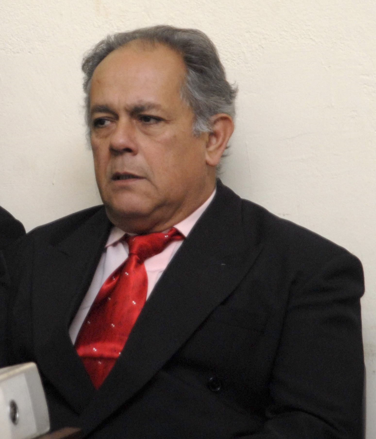 Portrait of José María Cuenca, during the trials after the fall of the Military dictatorship in 2009.